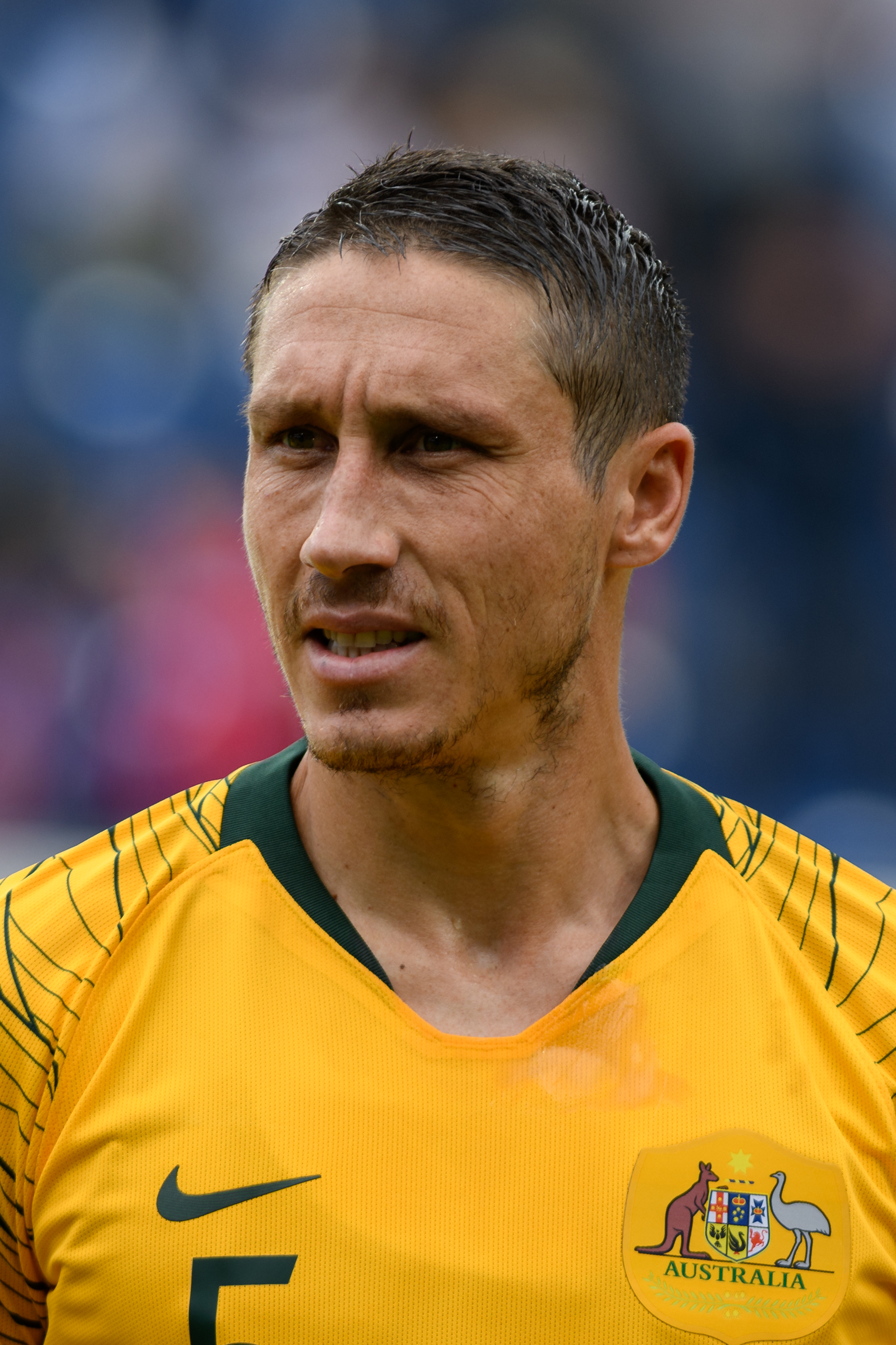 FIFA Friendly Match Czech Republic vs.Australia 2018/03/27. Picture shows Mark Milligan (AUS)